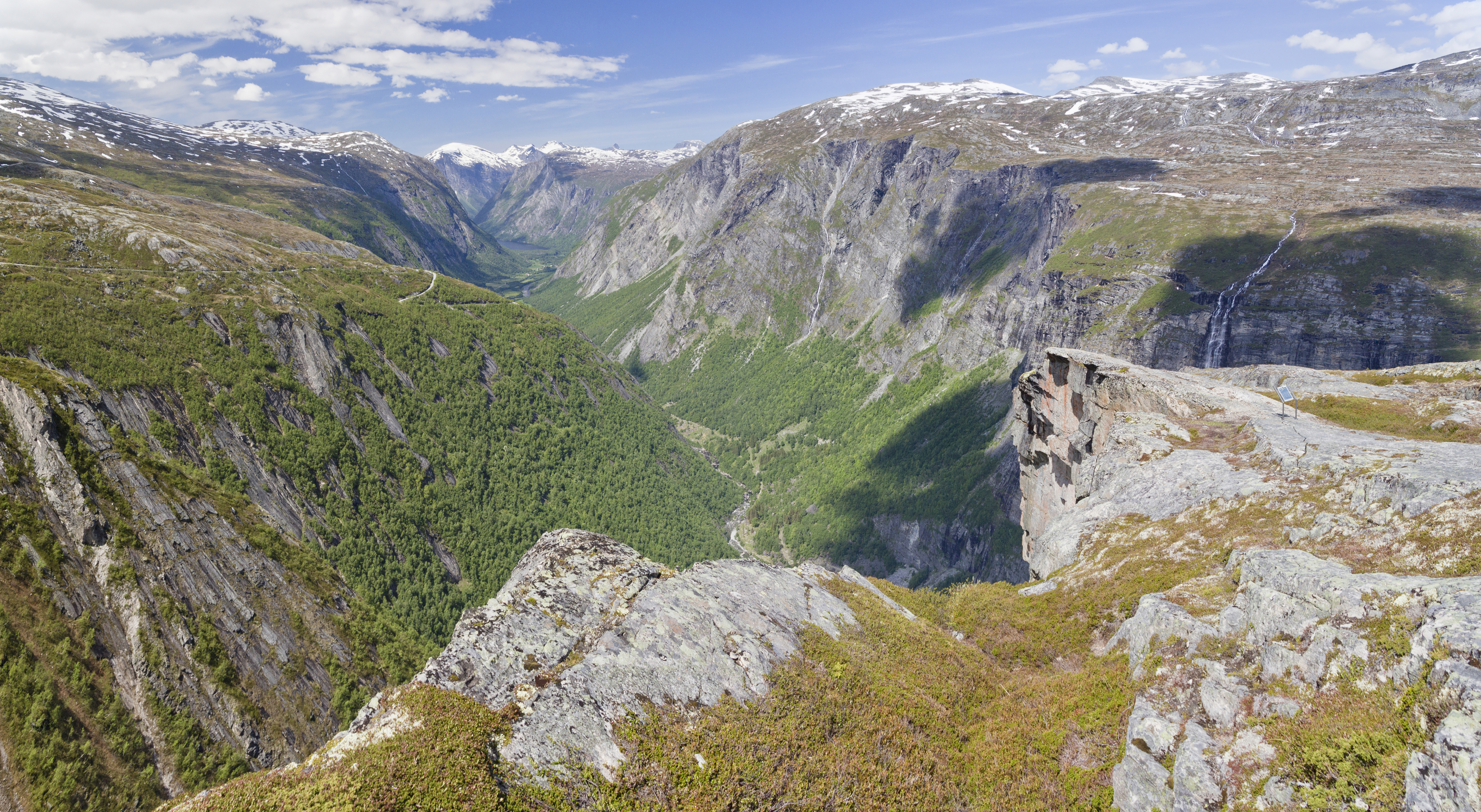 A view to Eikesdalen at Aurstaupet in Nesset, Møre og Romsdal, Norway in 2013 June.